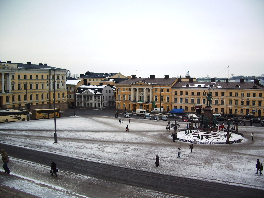 Senat square in Helsinki city center